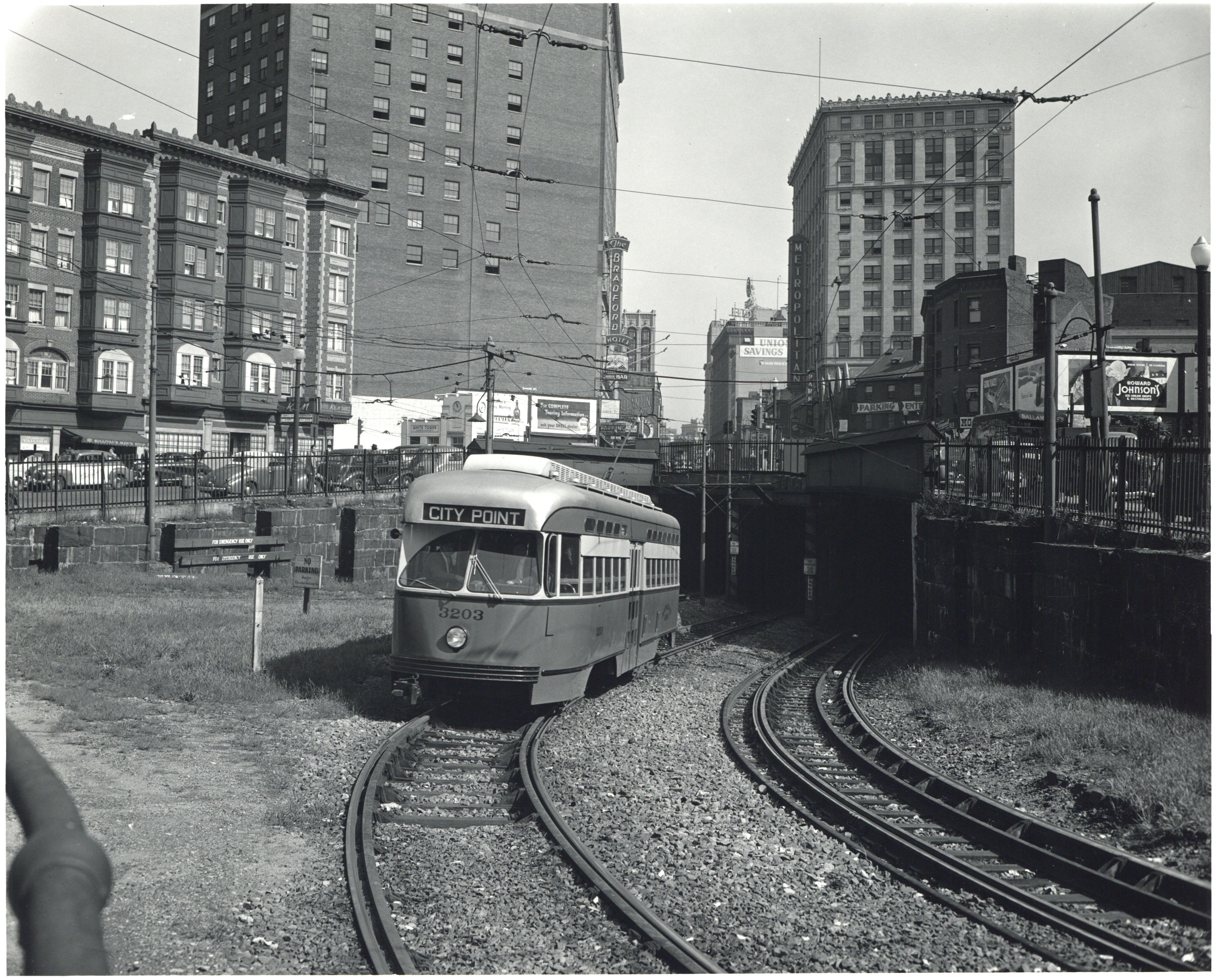 A PCC streetcar bound for City Point leaves the Tremont Street tunnel at Pleasant Street